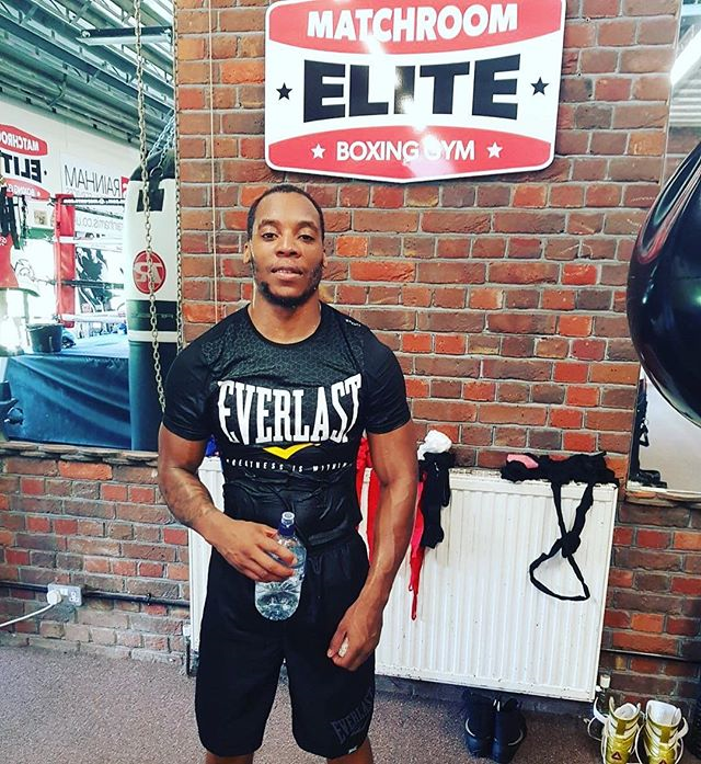 Daniel pictured at Matchroom Boxing Gym in 2017.